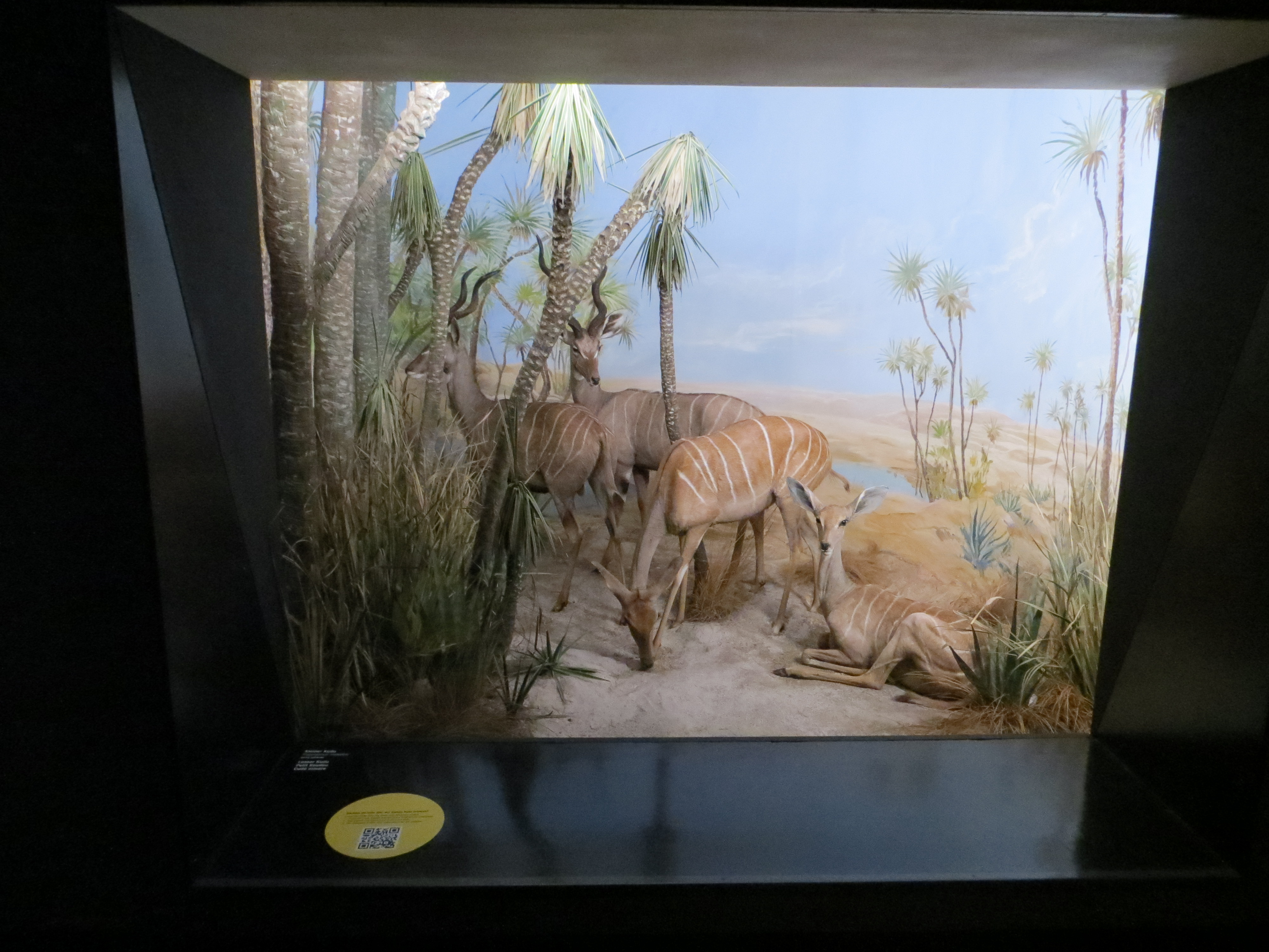 Diorama with a QRpedia code, Natural History Museum of Bern